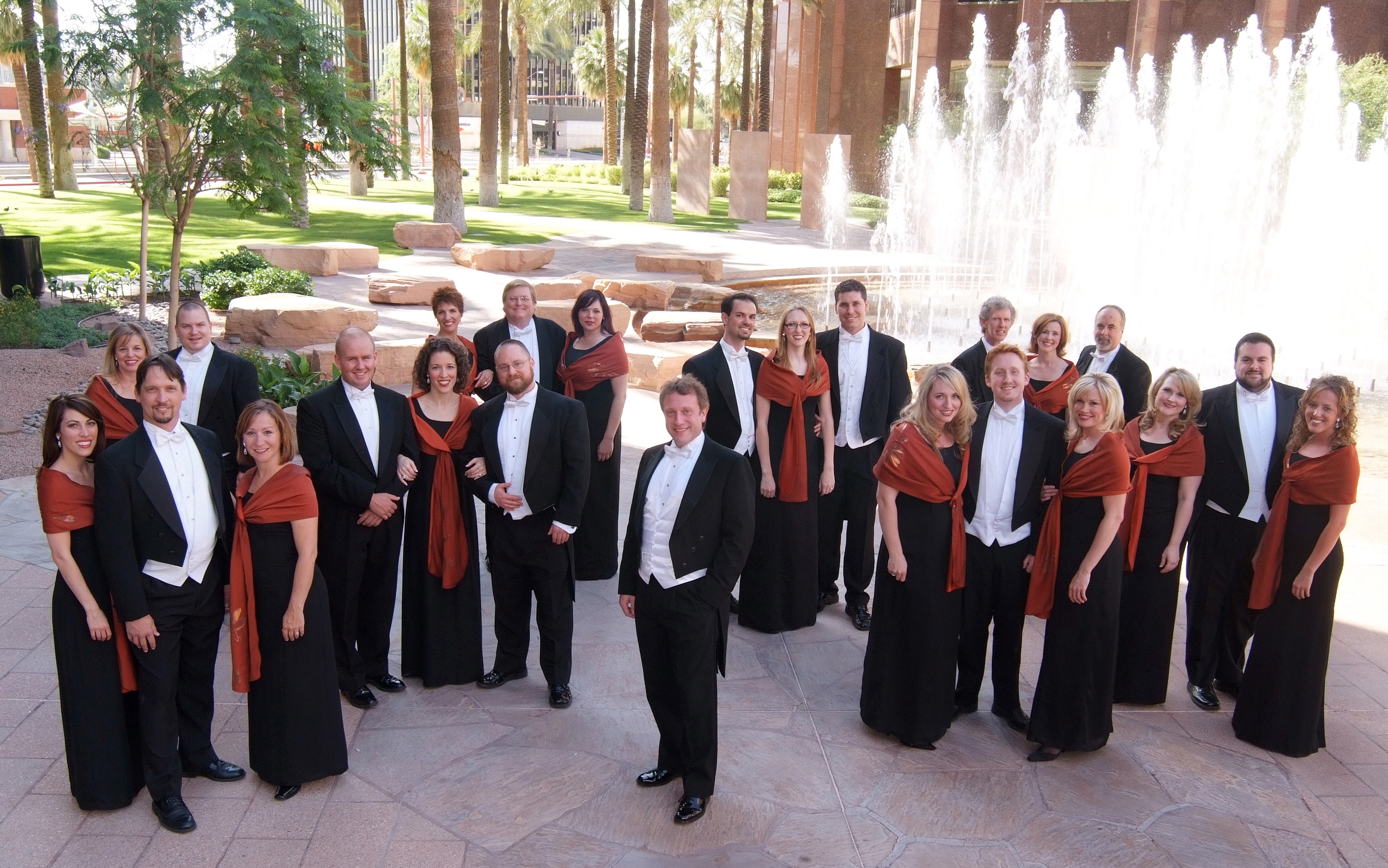 Photo of the singers of the Phoenix Chorale, along with their Artistic Director and conductor, Charles Bruffy (center)